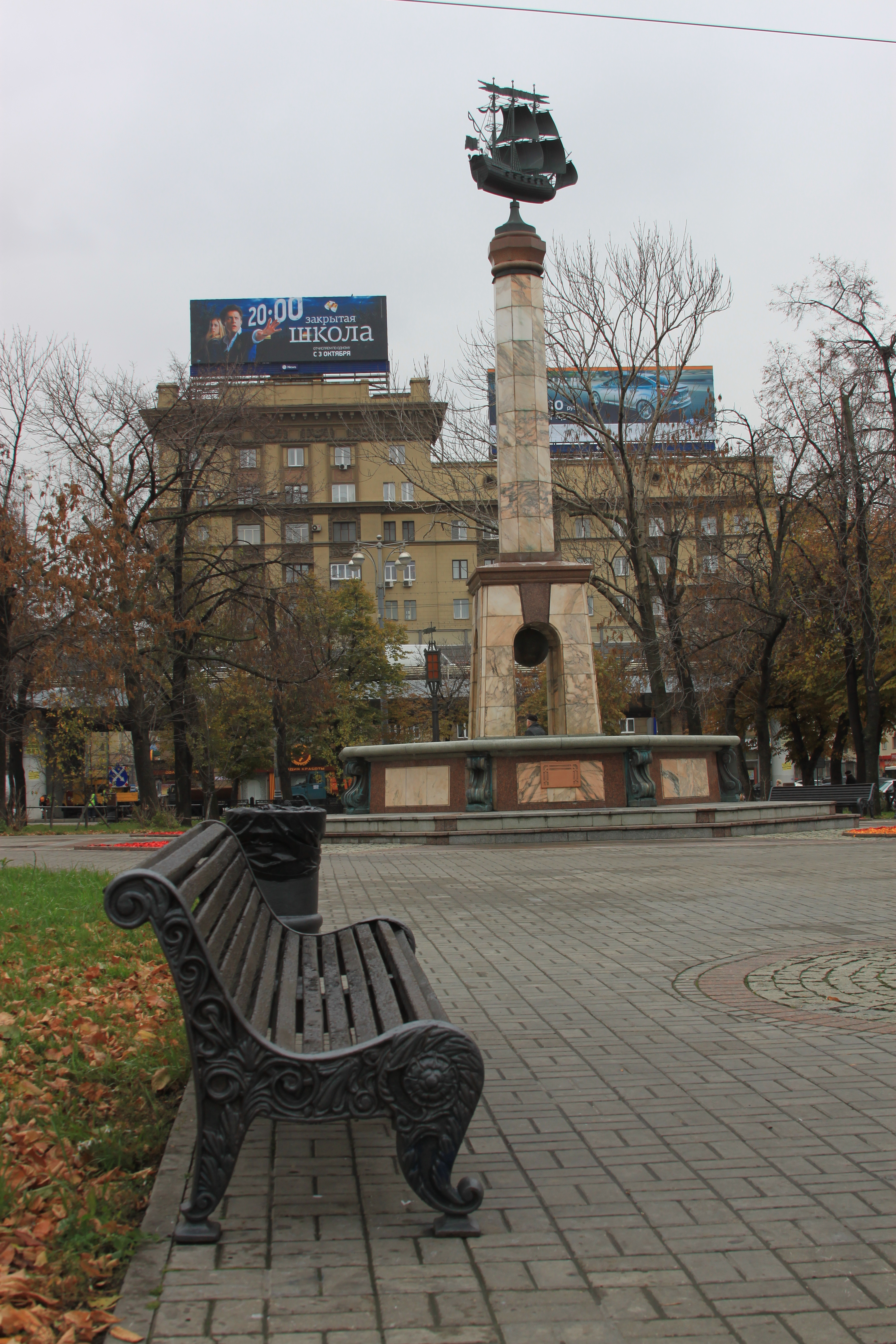 Russia, Moscow, Riga Railway Terminal, square, Россия, Москва, Рижский вокзал, Рижская площадь, Сквер на рижской площади